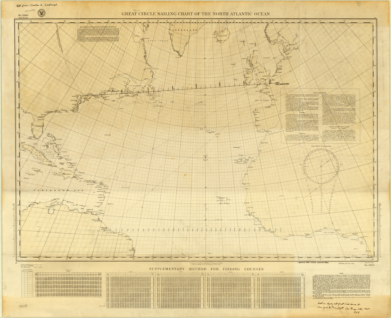 "Great Circle Sailing Chart of the North Atlantic Ocean" created in 1926 by the United States Hydrographic Office. Annotated by Charles A. Lindbergh.